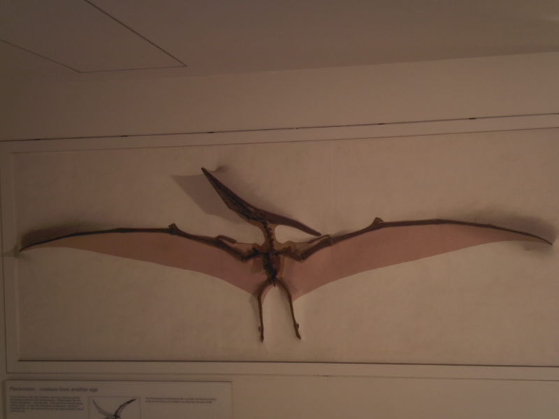 Pteranodon longiceps reconstruction at the Natural History Museum in London, England.